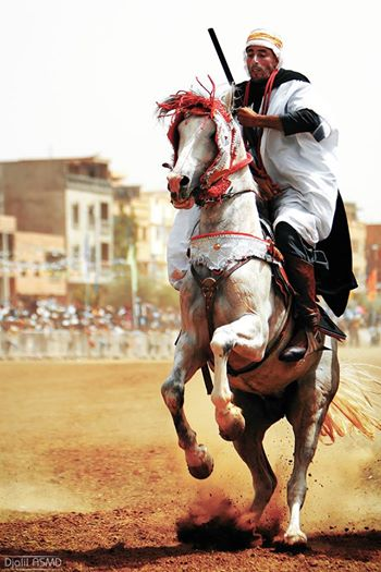 Fantasia festival — Tiaret.